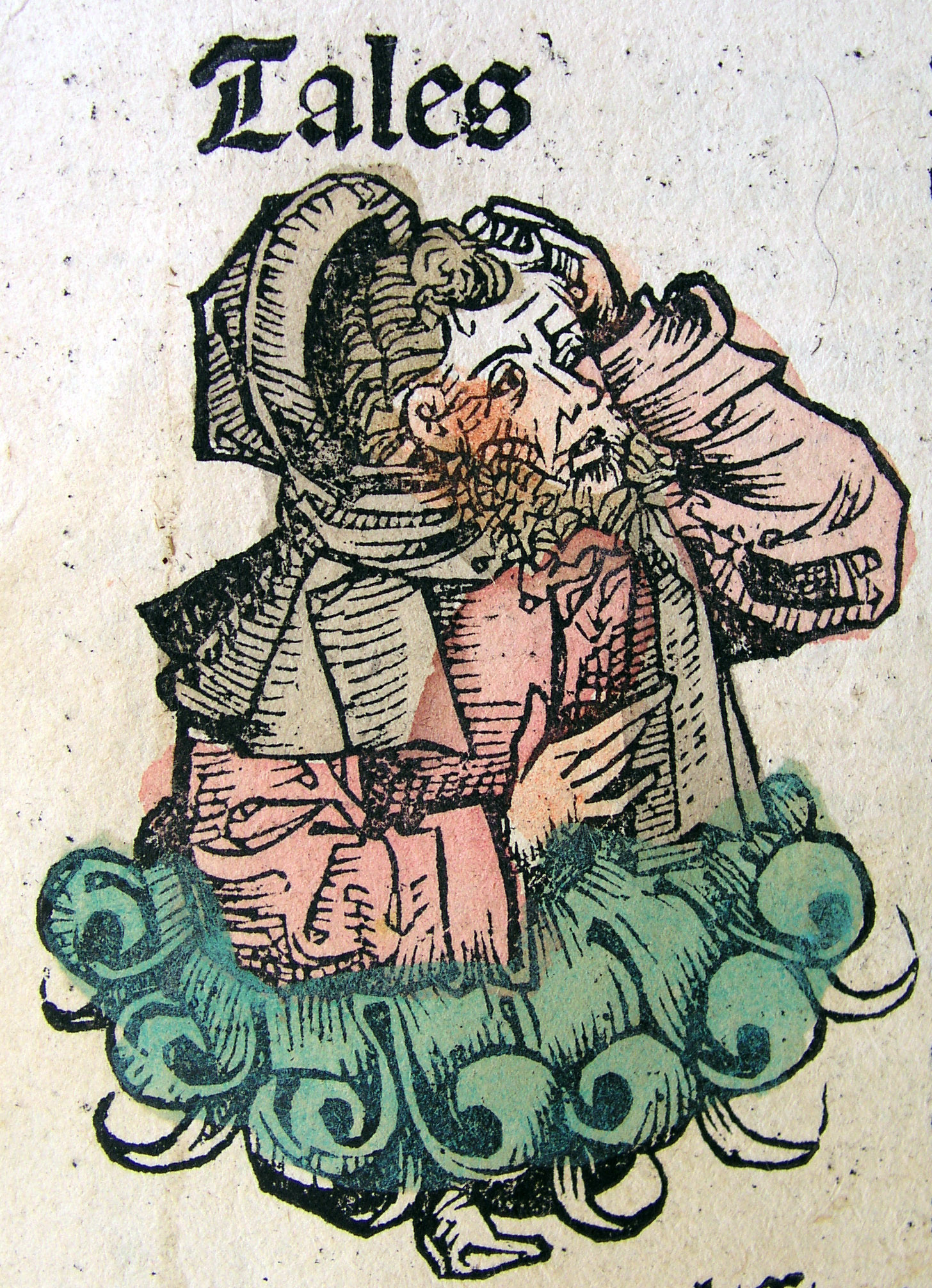 Thales. Woodcut from the Nuremberg Chronicle